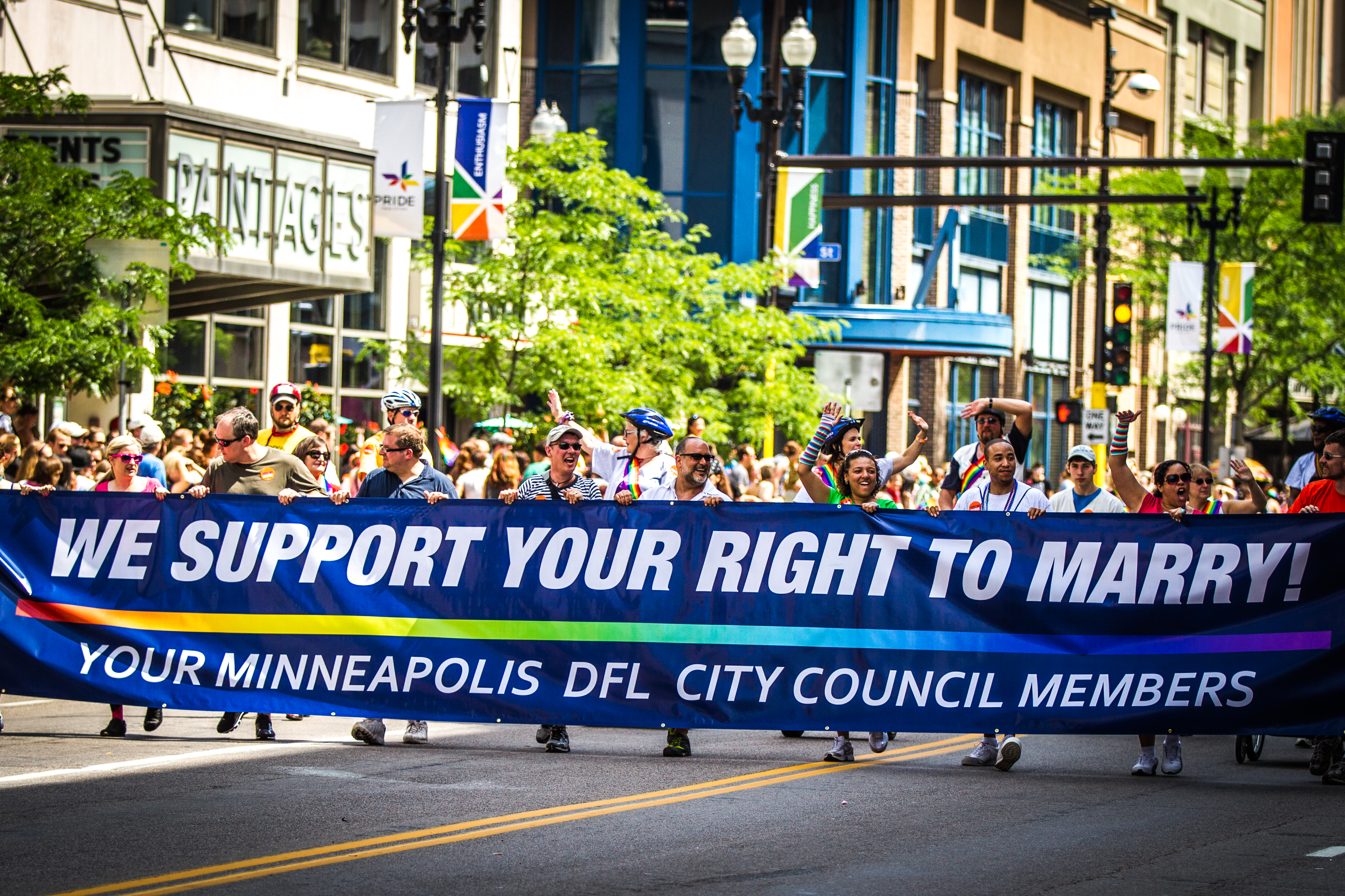 Minneapolis City Council Members at Pride